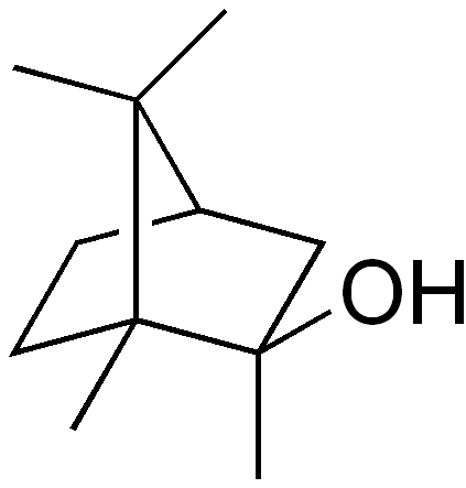 chemical structure of 2-methylisoborneol